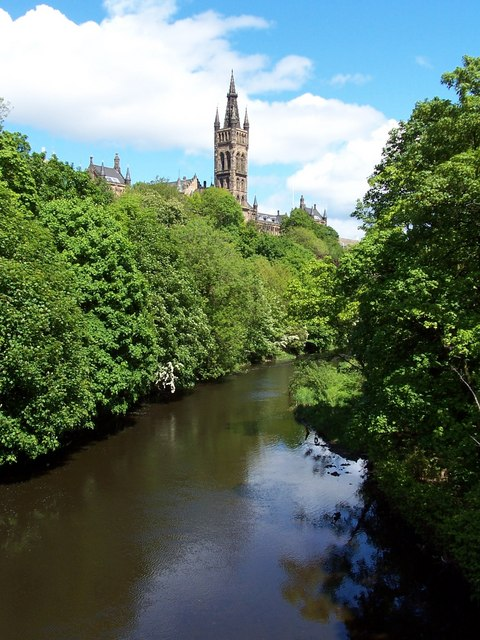 Glasgow University Tower Traditional view of the university tower from one of the bridges over the Kelvin in Kelvingrove Park